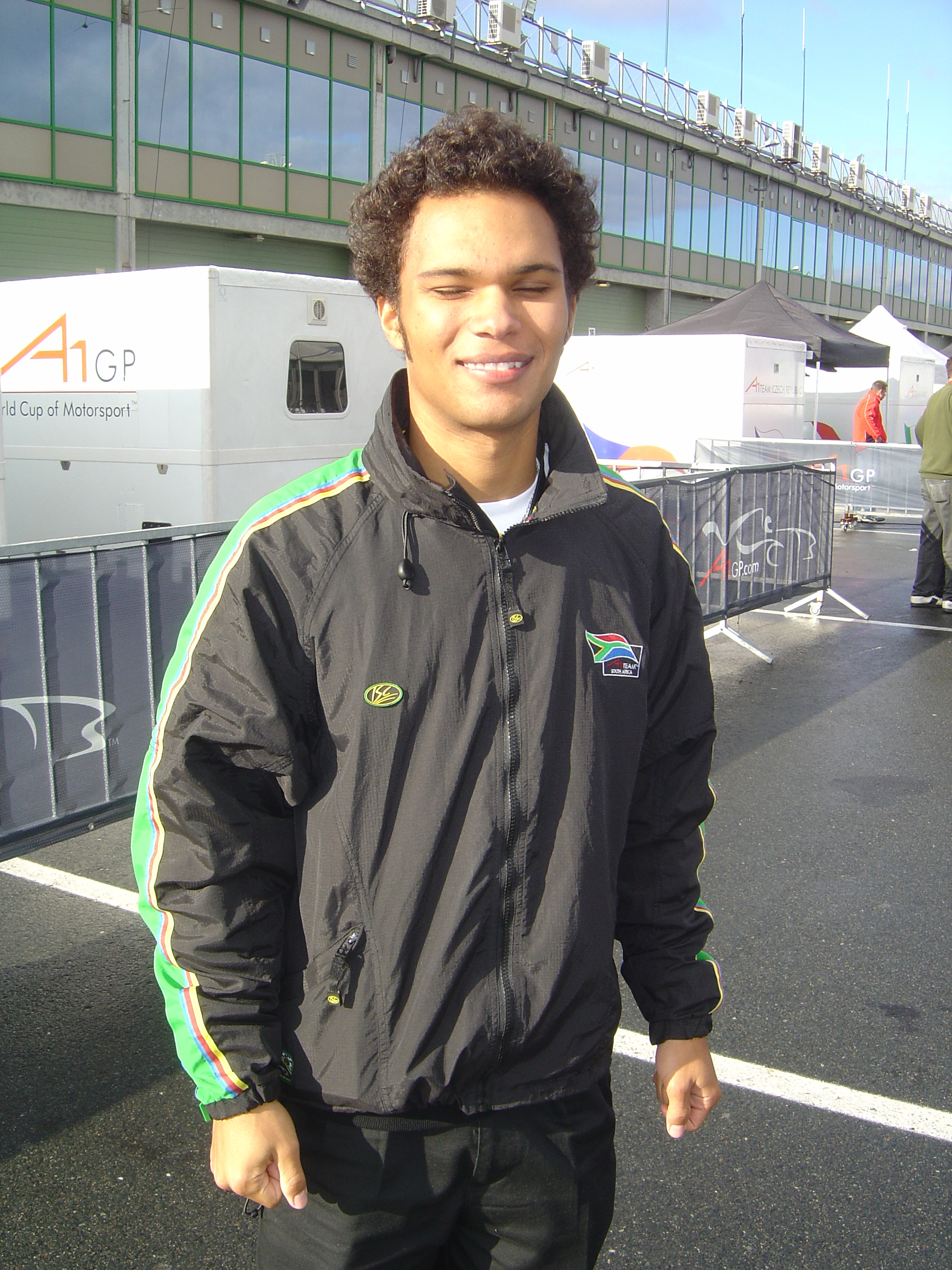 Adrian Zaugg: the photo was taken during 2007's A1GP race weekend at Brno